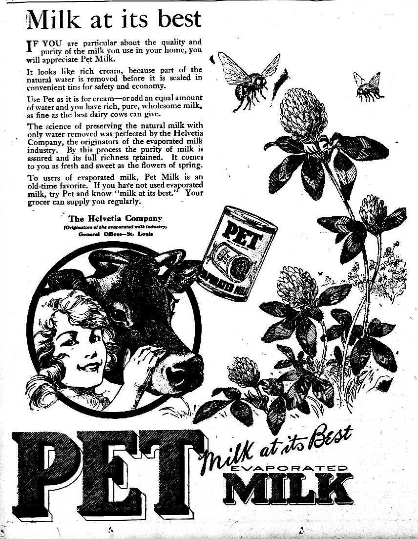 Newspaper ad for PET milk, 1922.